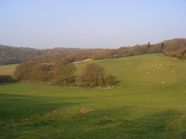 Downland, Combe Pasture below Combe Wood viewed from Limber Copse.